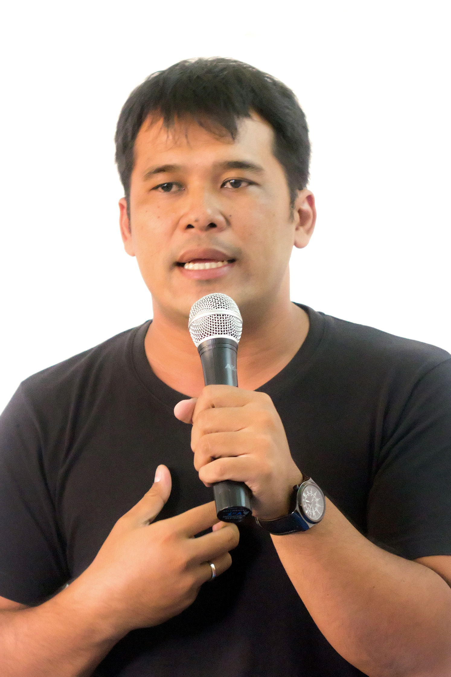 Indonesian film director/producer Ifa Isfansyah at the Indonesia-Germany Institute in Yogyakarta 2018-02-14